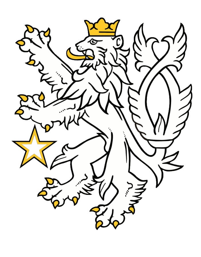 Defunct English Wanderers Football Club crest.